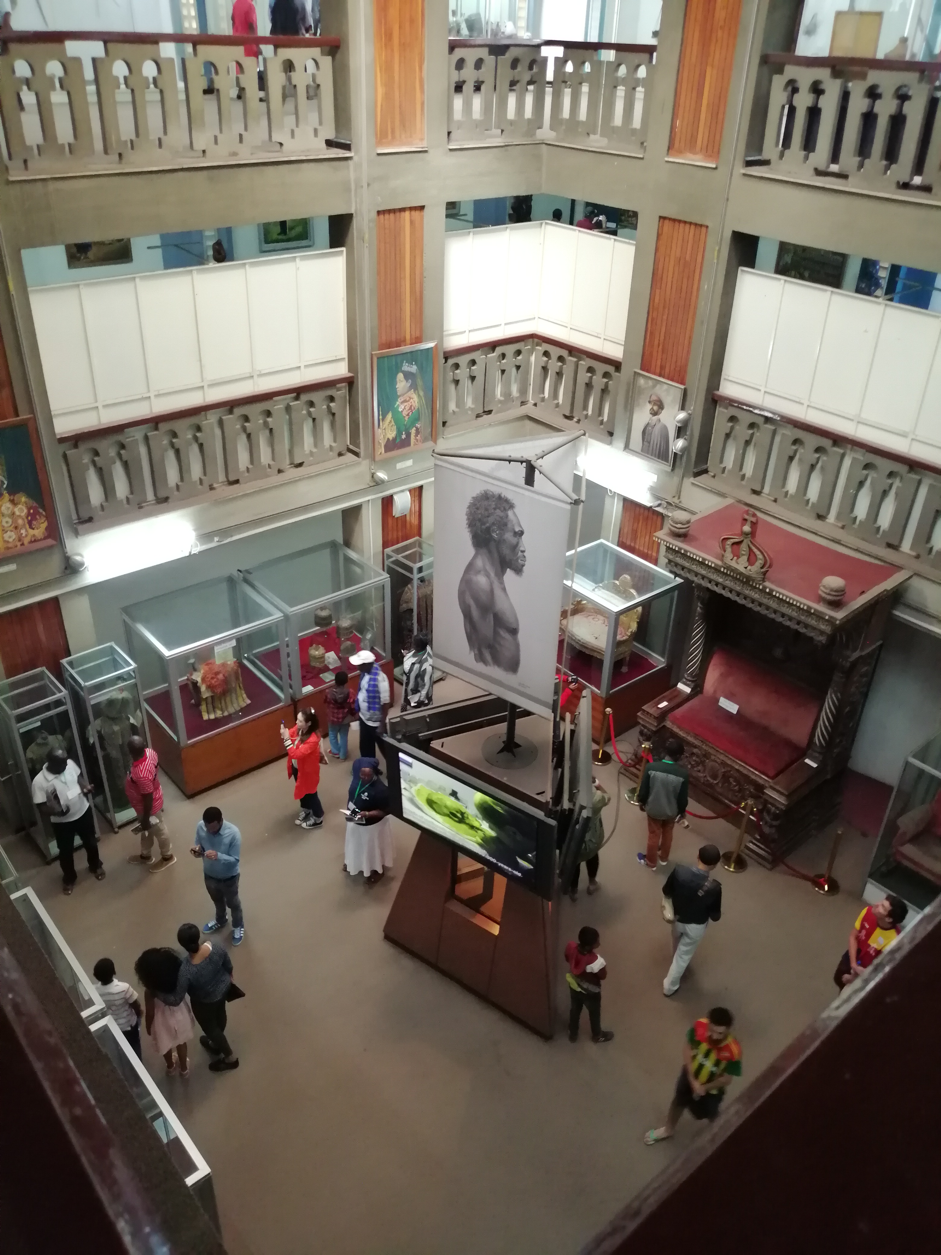 This is an image with the theme "Play" from: Ethiopia